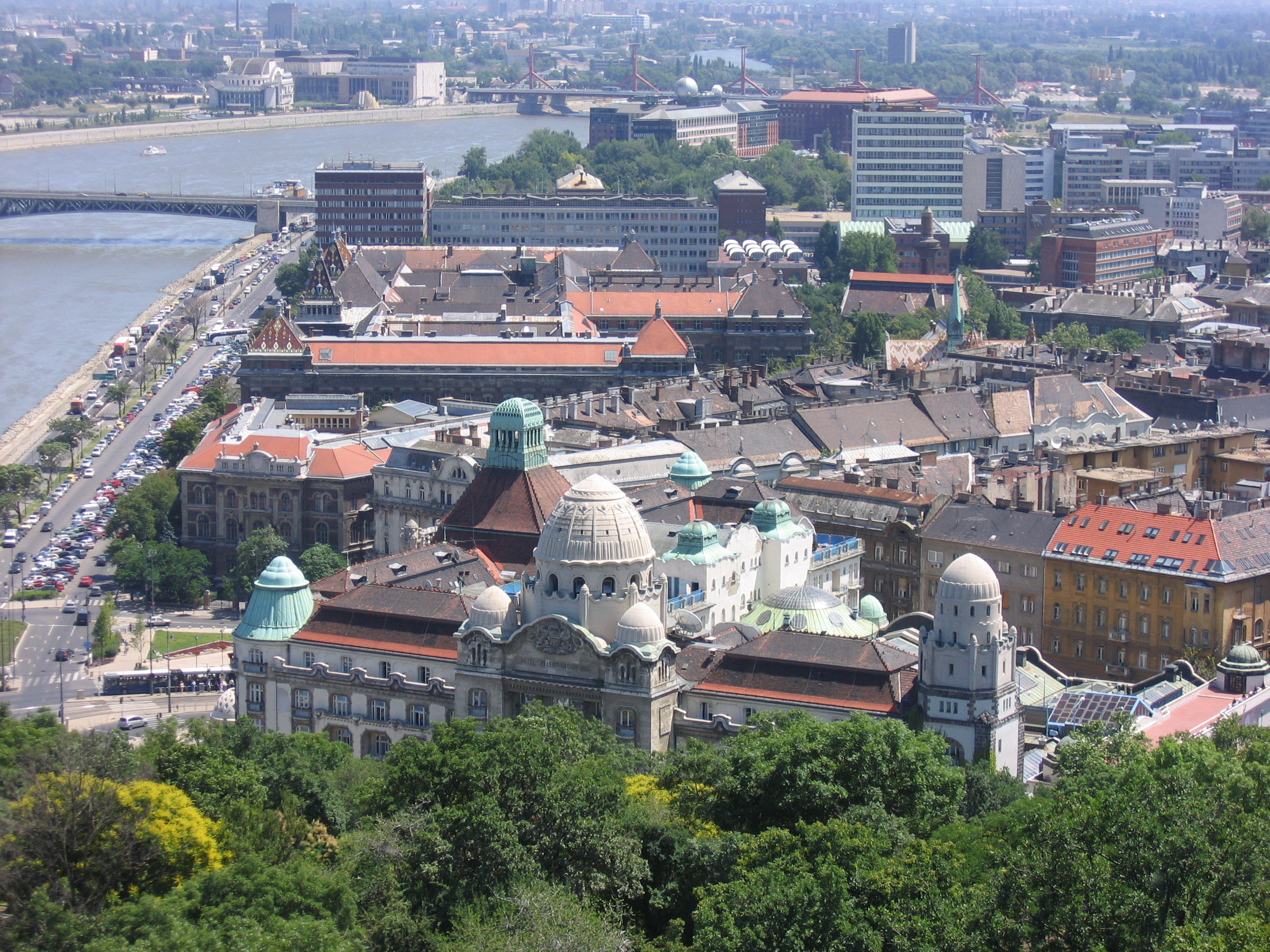 View on Budapest